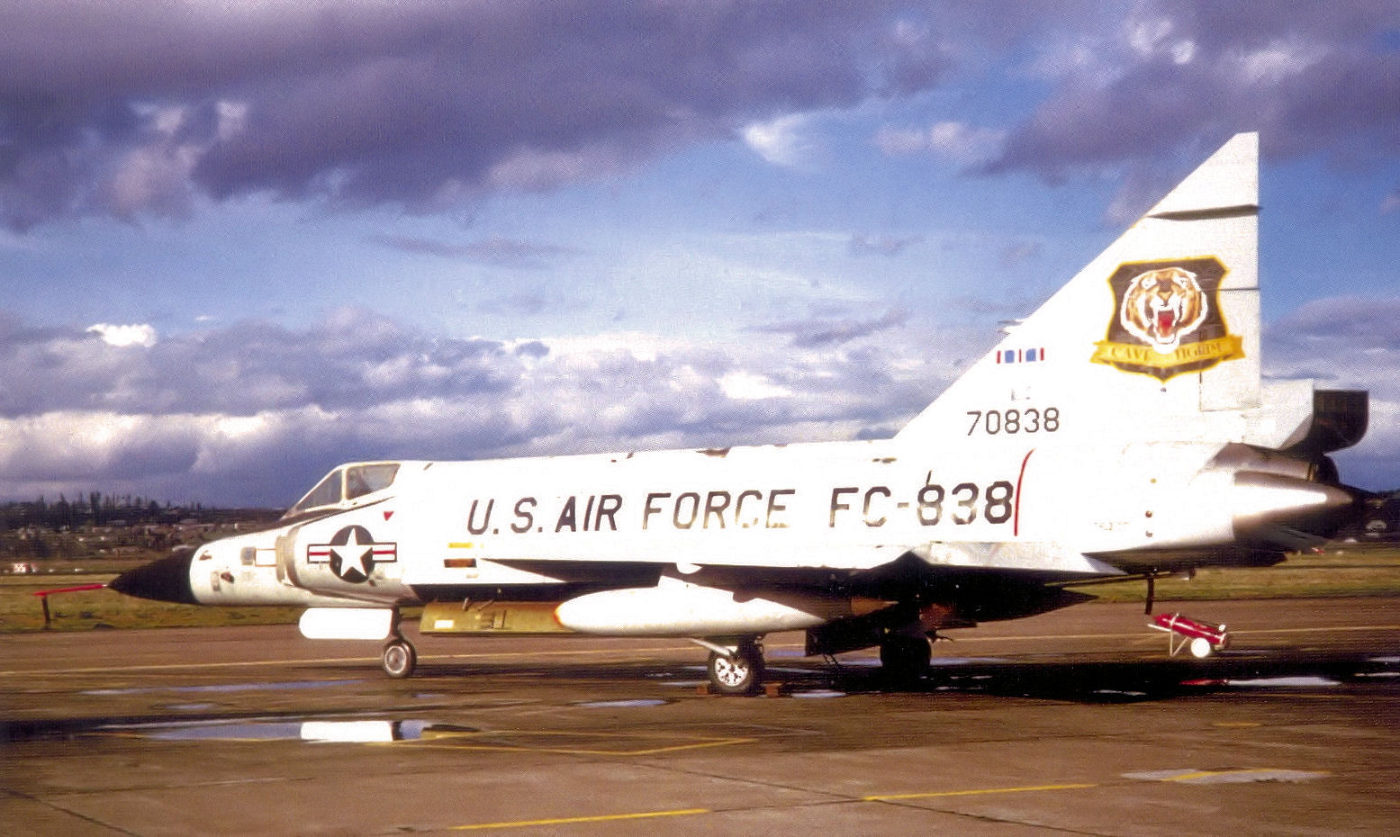 460th Fighter-Interceptor Squadron Convair F-102A-90-CO Delta Dagger 57-838 337th Fighter Group, Portland International Airport, Oregon, April 1963 57-838 was WFU and retired to AMARC on May 15, 1971